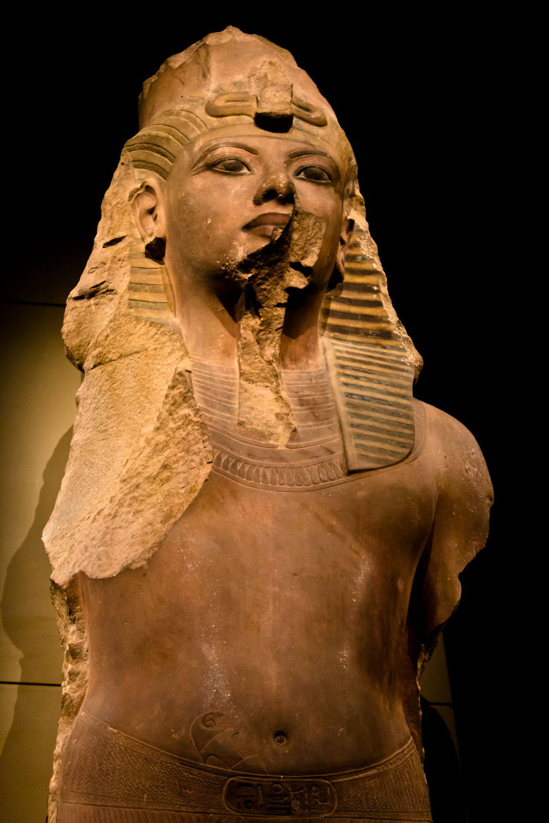 Colossal statue of Tutankhamun. Painted quartzite. Fom Thebes, Funerary Temple of Ay and Horembheb. New Kindom, 18th Dynasty, Reigns of Tutankhamun, Ay and Horemheb (1355-1315 BCE)